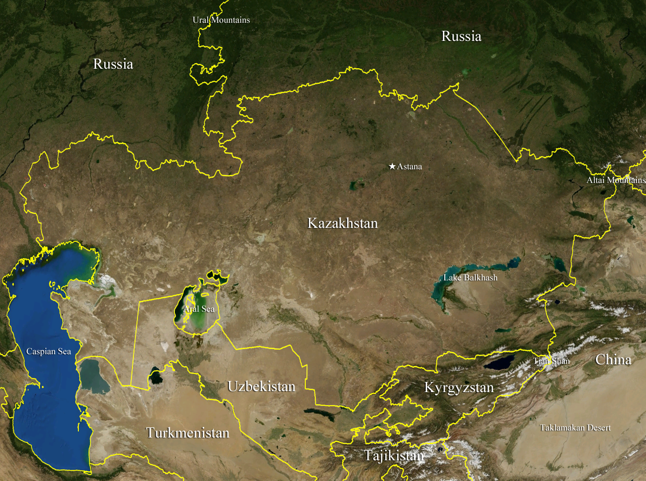 Satellite image of Kazakhstan